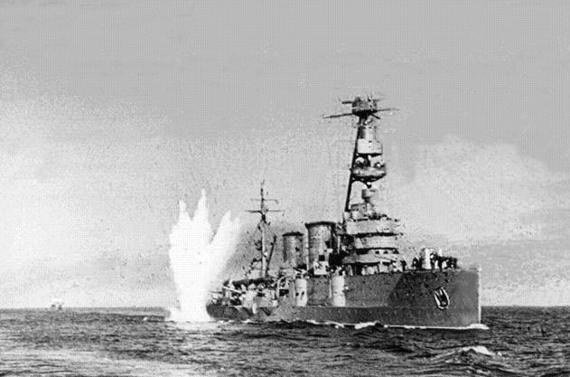 Soviet cruiser Krasnyi Krym.